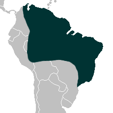 Distribution map